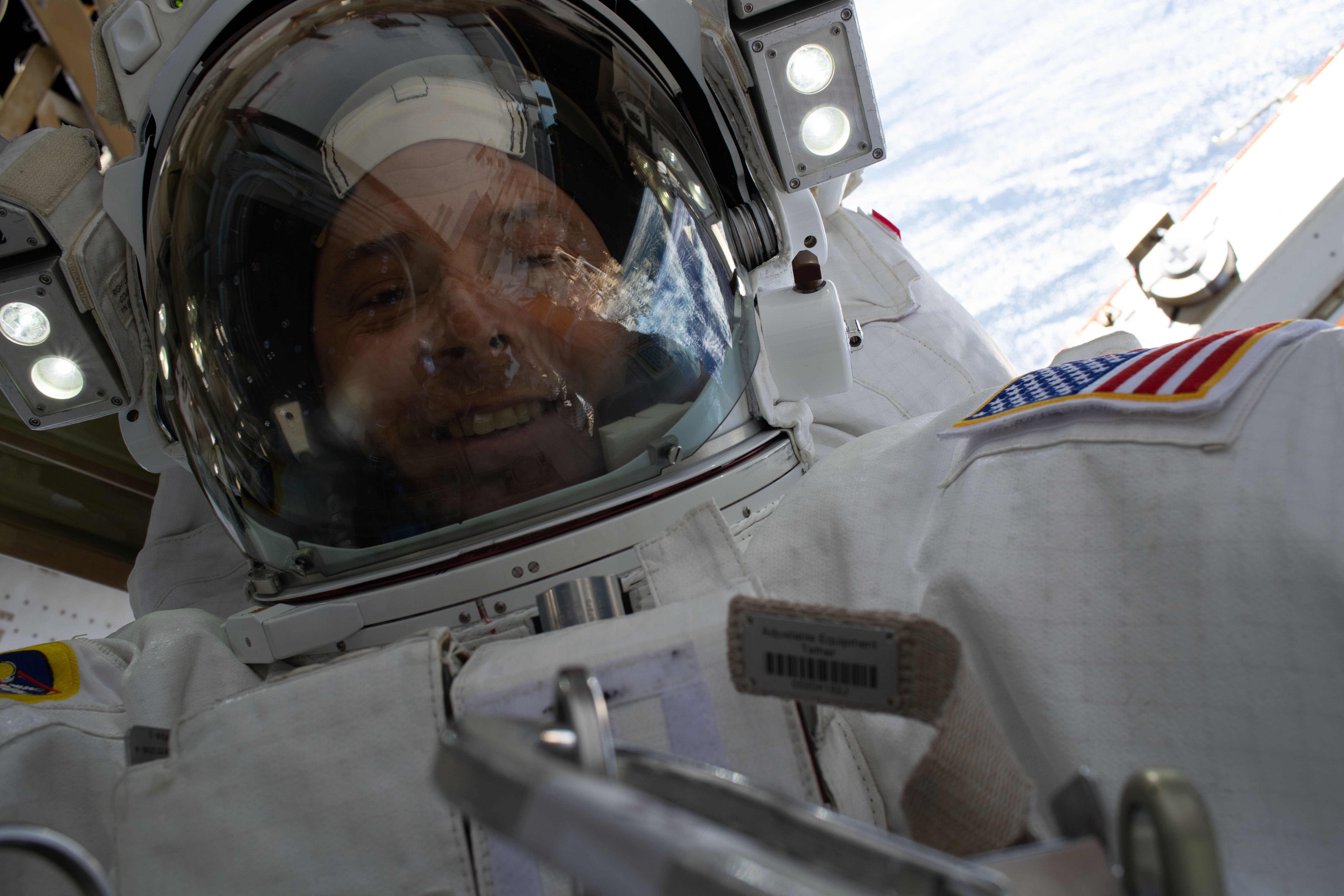 NASA astronaut Nick Hague takes a "space-selfie" with his helmet visor up and the Earth 260 miles below him during a six-hour, 45-minute spacewalk to upgrade the orbital complex's power storage capacity.